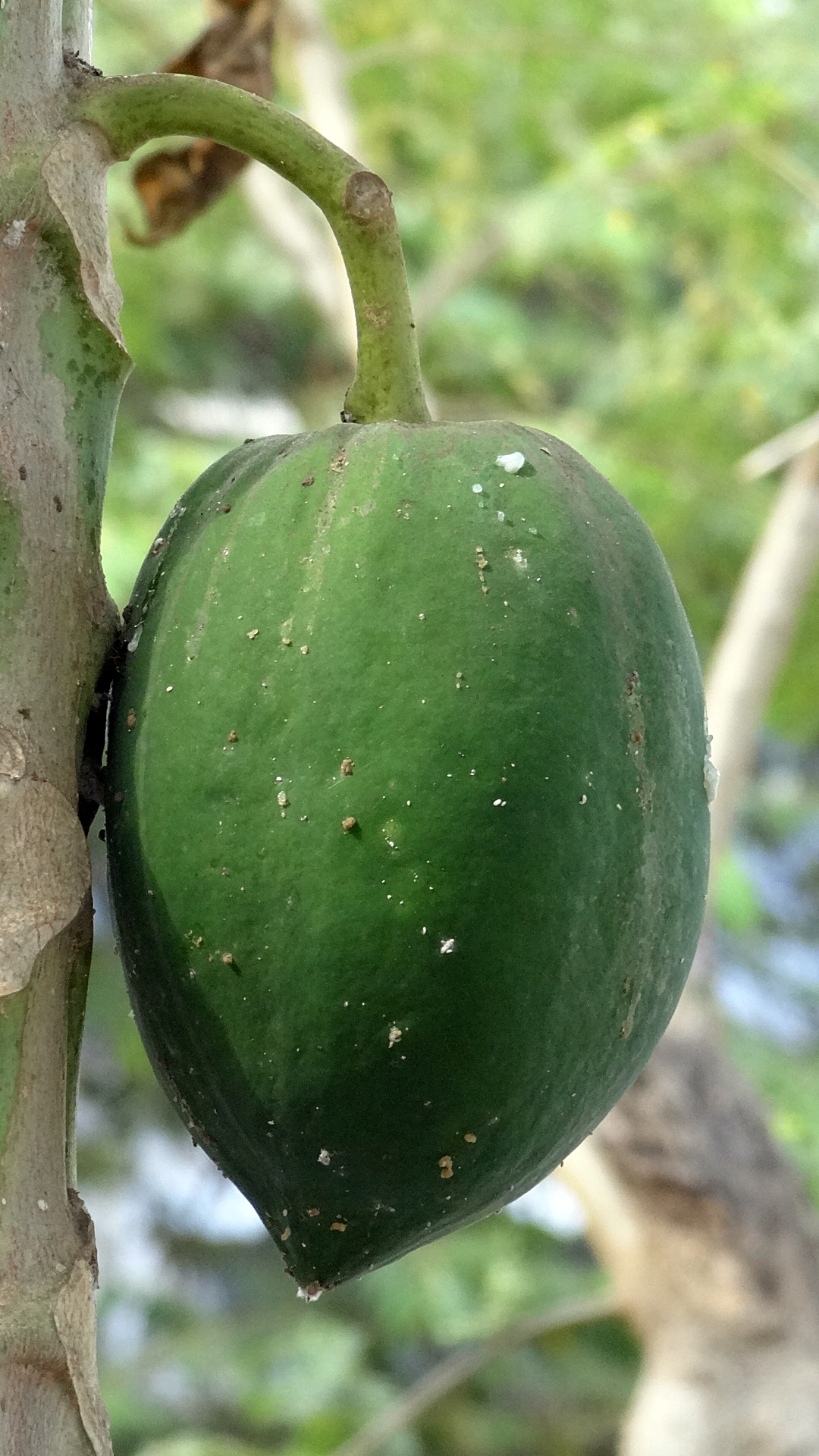 Unripe papaya fruit